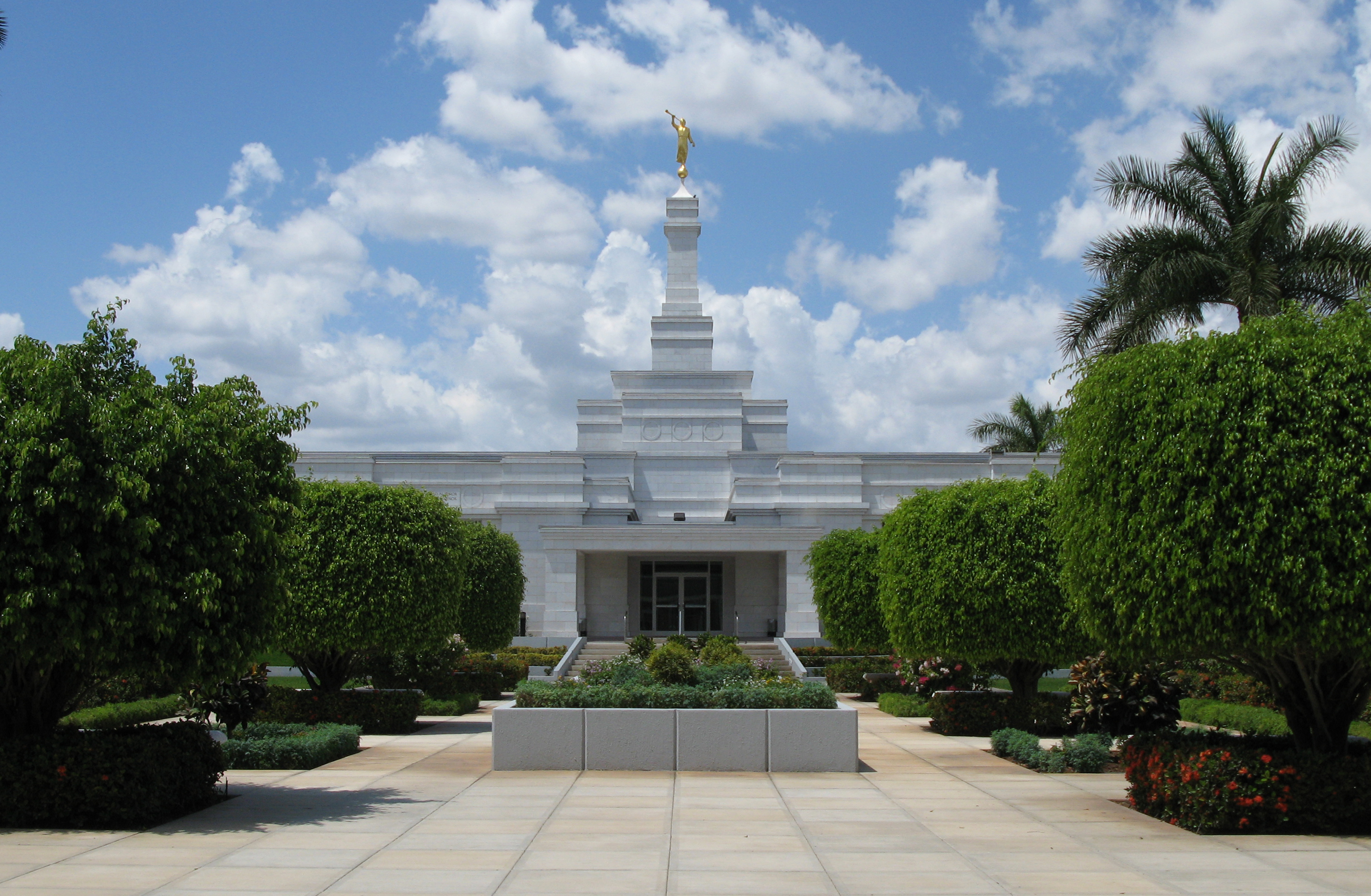 The Mérida México Temple of The Church of Jesus Christ of Latter-day Saints, in 2009, cropped and rotated from original on flickr